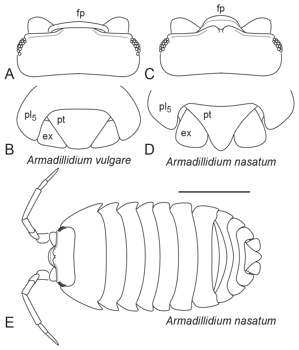 Armadillidiidae.A–B Armadillidium vulgareA head, dorsal viewB posterior end of pleon, dorsal viewC–E Armadillidium nasatumC head, dorsal viewD posterior end of pleon, dorsal viewE Dorsal view.Abbreviations:ex exopodite of uropod;fp frontal projection;pl5 pleonal tergite V;pt pleotelson.Scale bar: 5 mm.